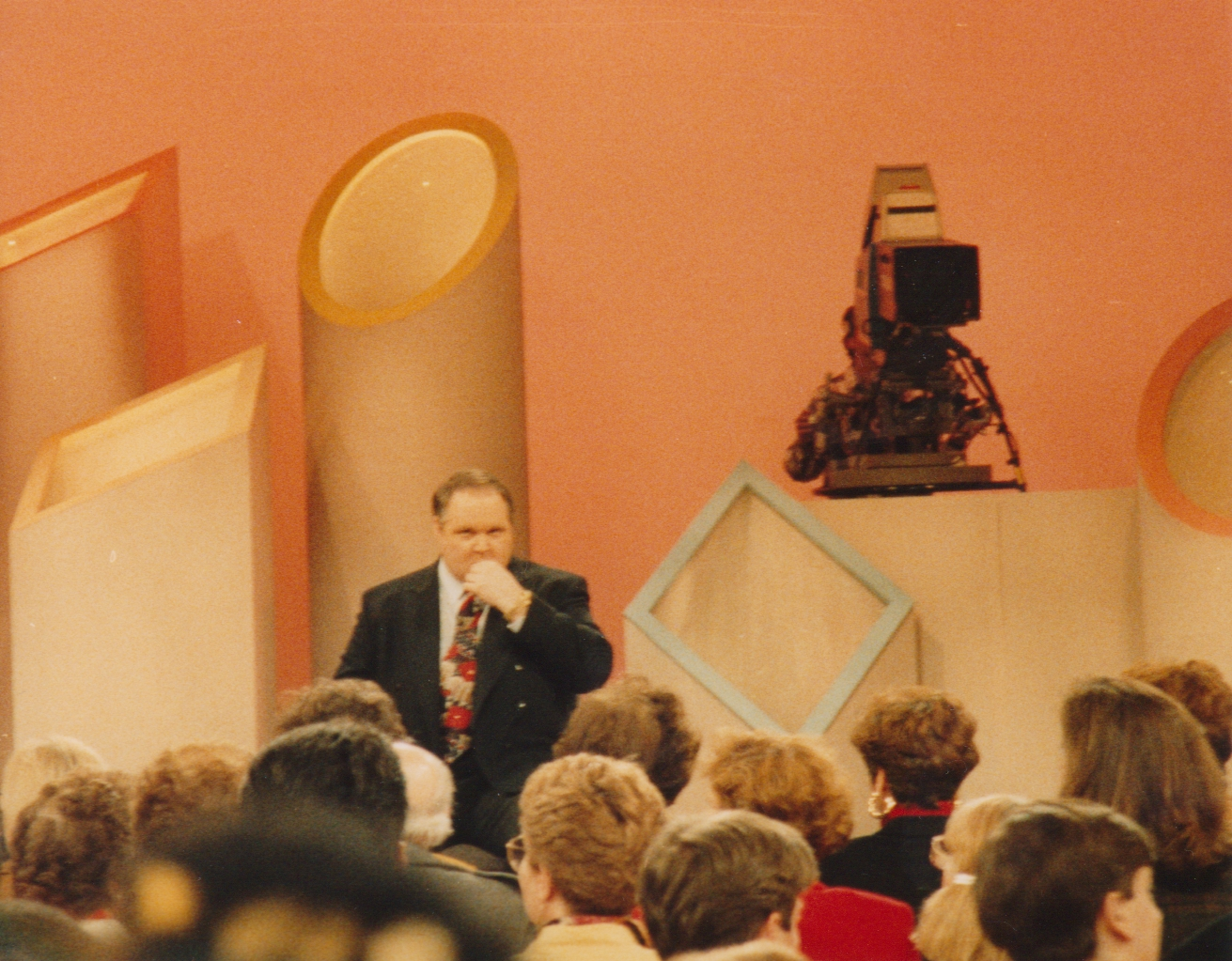 At the Phil Donahue show in New York sometime between 1990 and 1992. Rush Limbaugh was one of the guests.